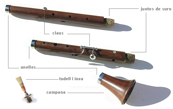 Tarota